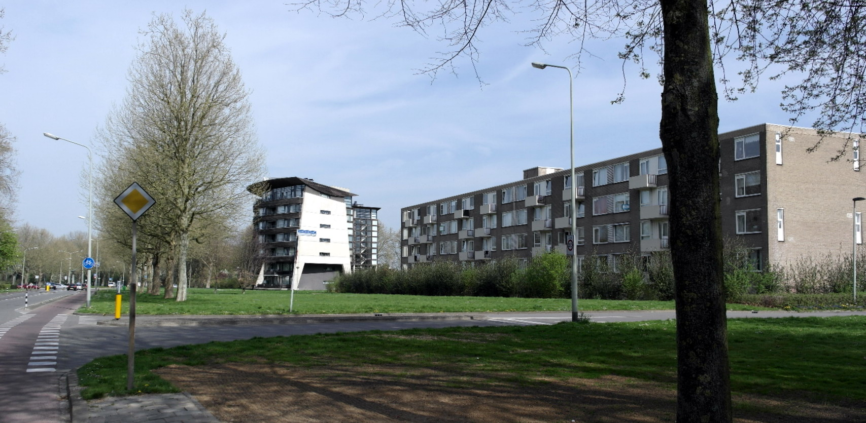 Maastricht, the Netherlands. View of apartment blocks along Gewantmakersdreef in the Maastricht-West neighbourhood of Belfort.